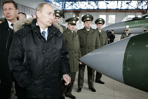 ZHUKOVSKY, MOSCOW REGION. At the Mikhail Gromov Flight Research Institute.